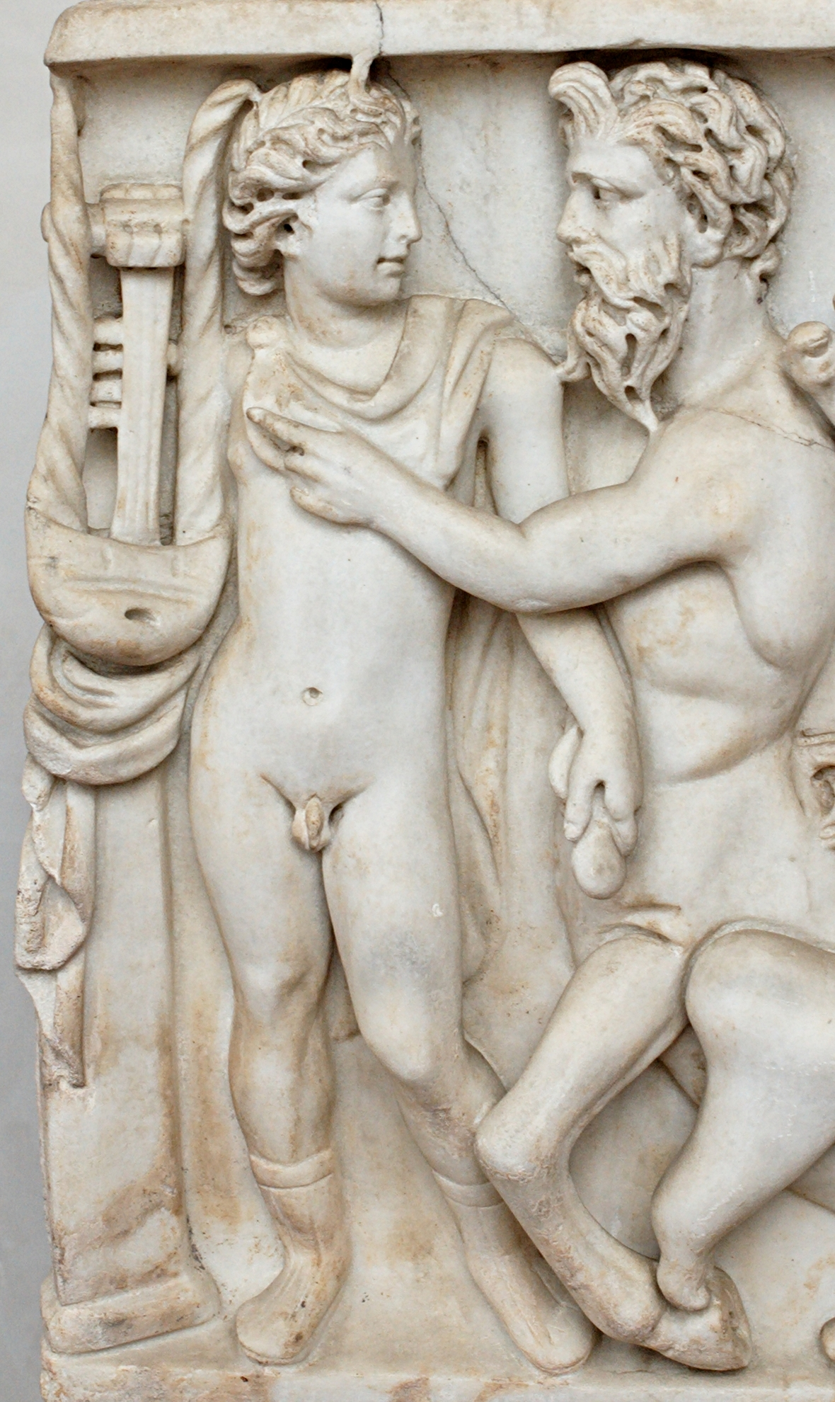 Achilles and Chiron, detail from a sarcophagus. White marble, 2nd half of the 3rd century CE. From the Via Casilina in Torraccia.